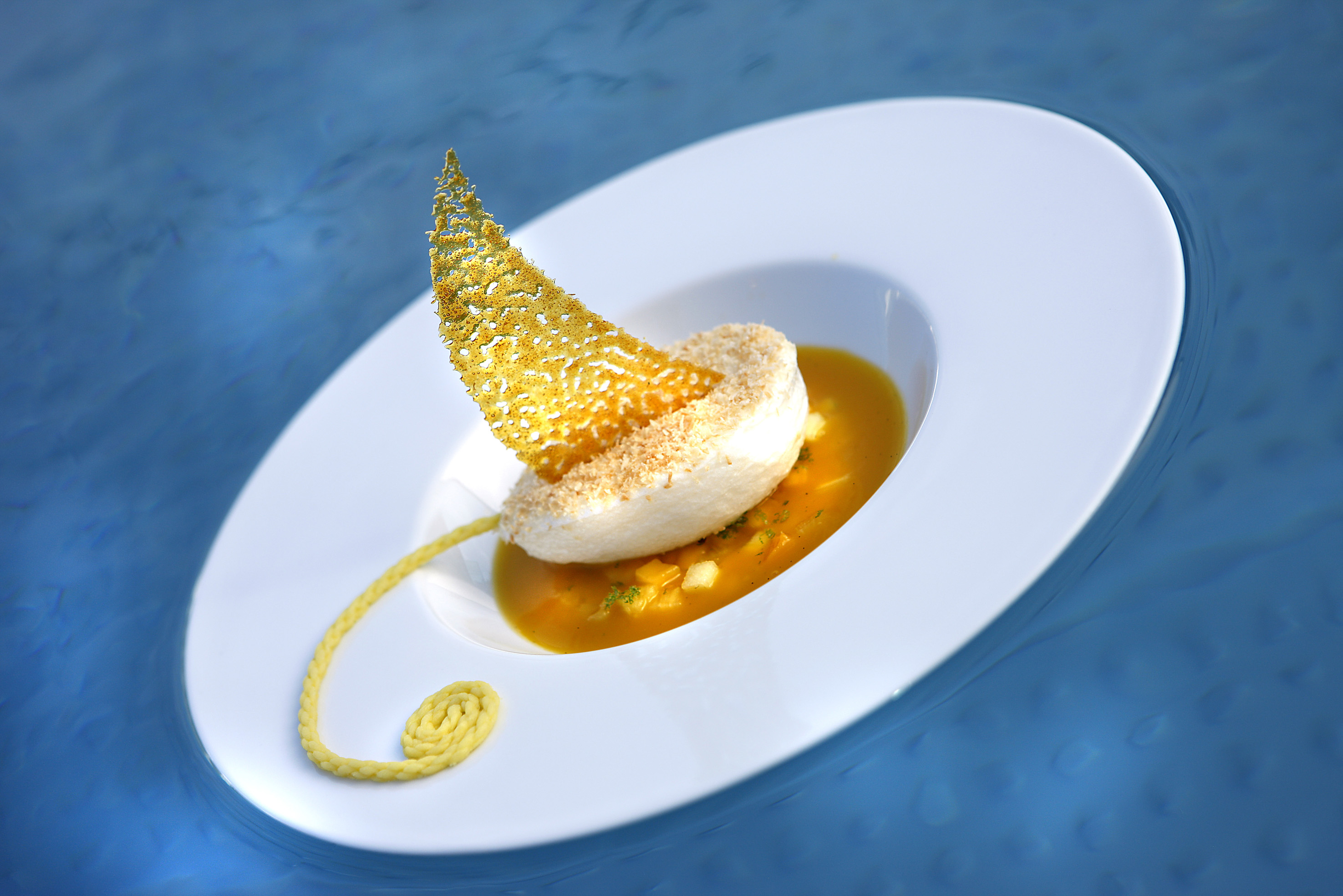 Floating island.